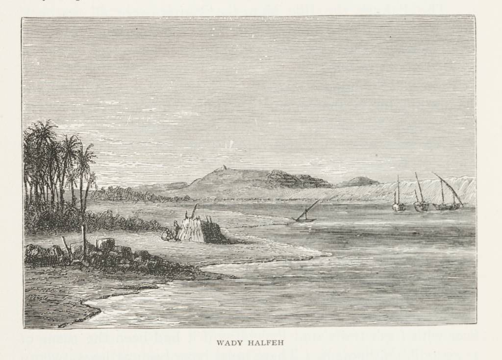 River curves around palms on the left and low cliffs to the right, four boats are visible on the water.